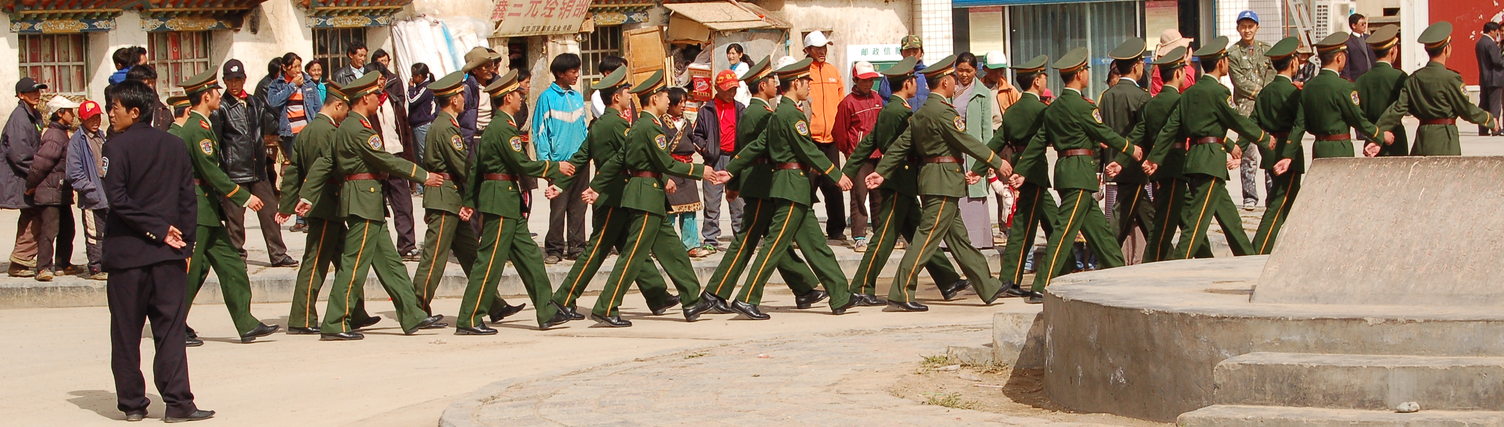 Chinese armee in Drongpa (Zhongba) Shigatse District Tibet